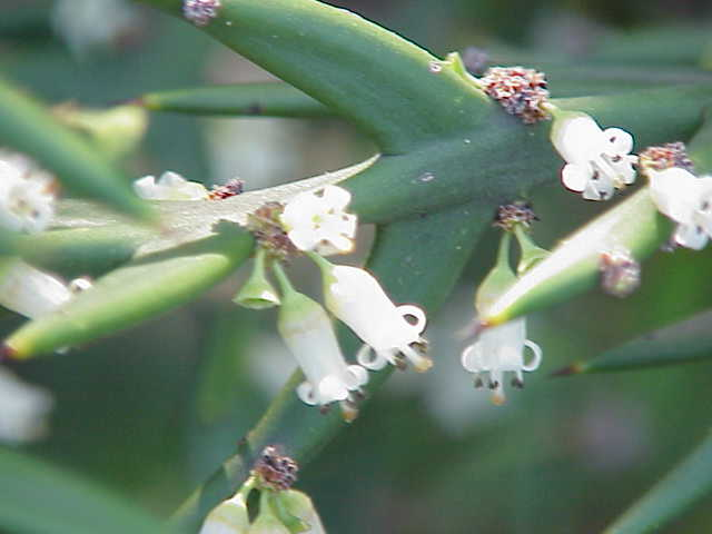 Species: Colletia paradoxa Family: Rhamnaceae Image No. 2